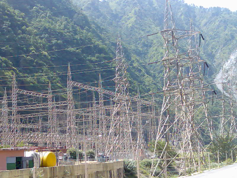 Salal Hydroelectric Power Station, Distt. Reasi, Jammu, Jammu and Kashmir.